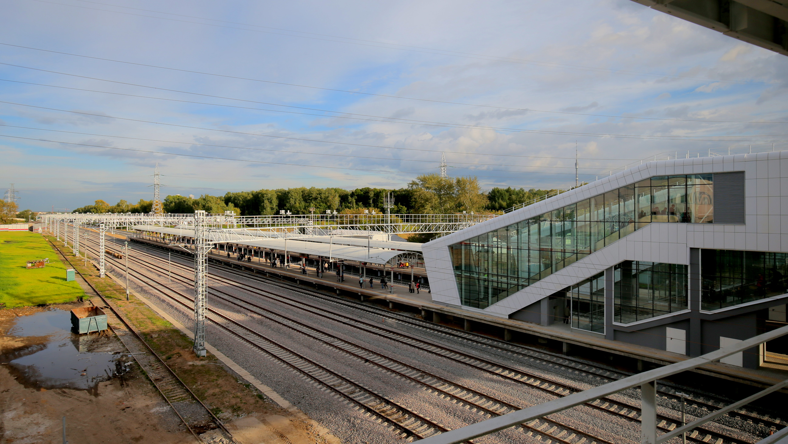 "Vladykino" station of MCC